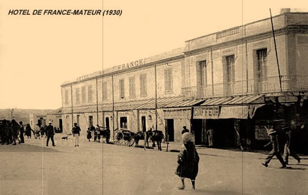 Hotel de France in Mateur (Tunisia) in 1930